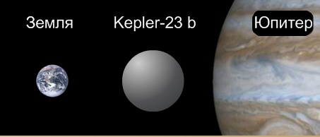 Comparative sizes of Earth, Kepler-23 b and Jupiter.